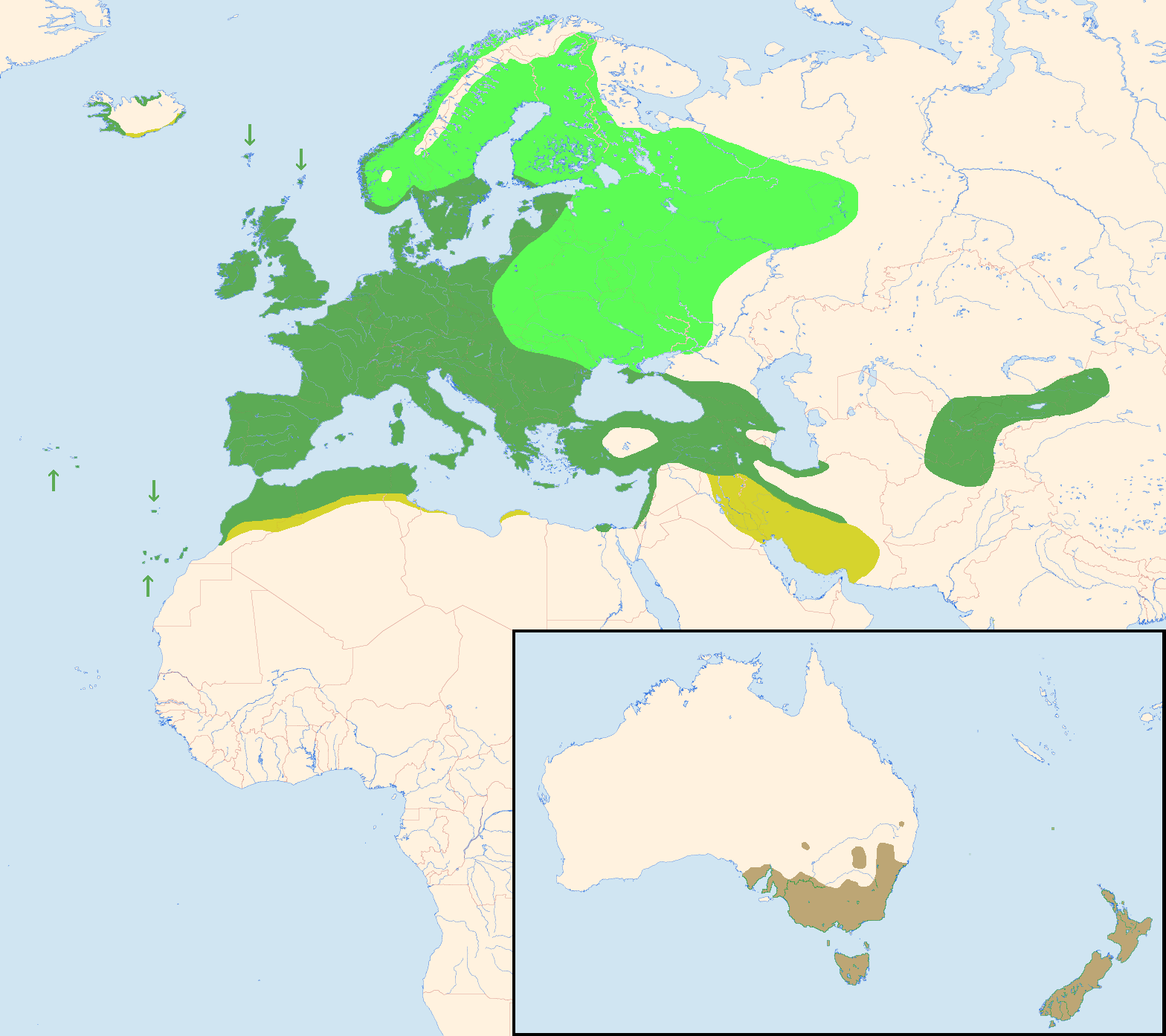 Distribution of Common Blackbird Turdus merula. Summer only range: light green Resident range: dark green Winter only range: yellow Introduced (inset): light brown